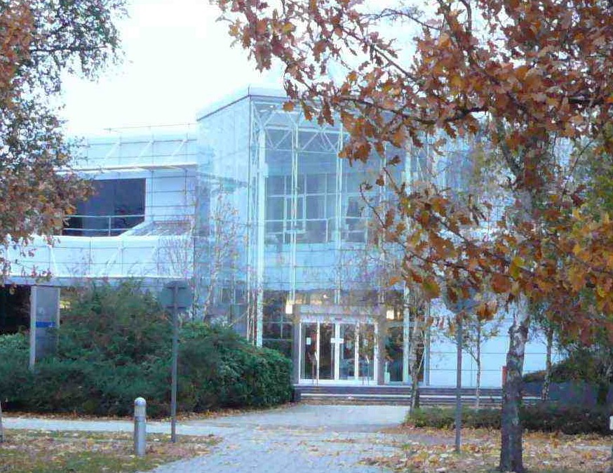 Picture of Adastral Park Hub